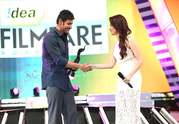 Mahesh Babu receiving the Filmfare Award for Best Actor – Telugu for his performance in the 2013 Telugu film Seethamma Vakitlo Sirimalle Chettu from actress Tamannaah at the 61st Filmfare Awards South ceremony held in Chennai at Nehru Stadium.